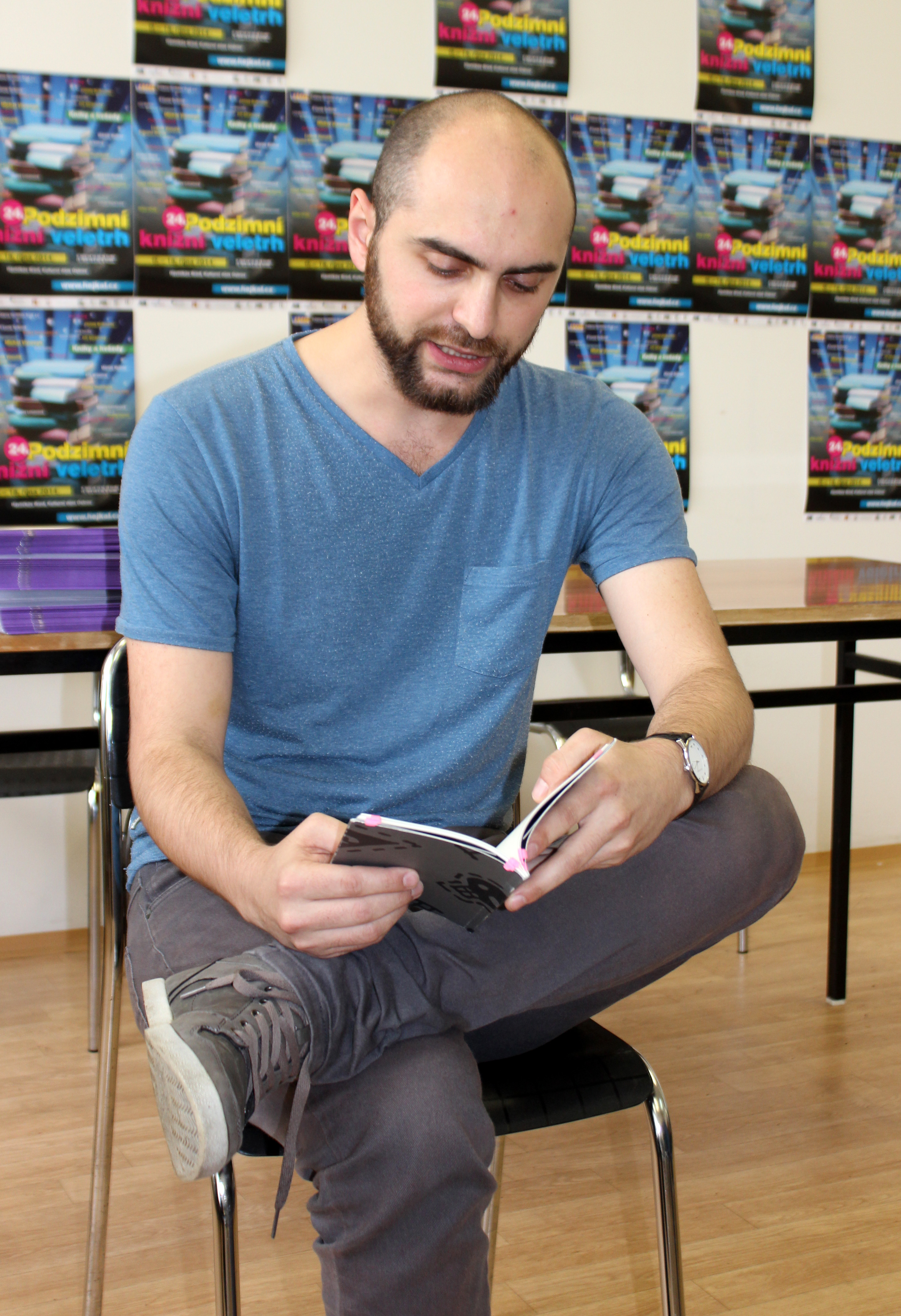 Czech writer Ondřej Hanus.